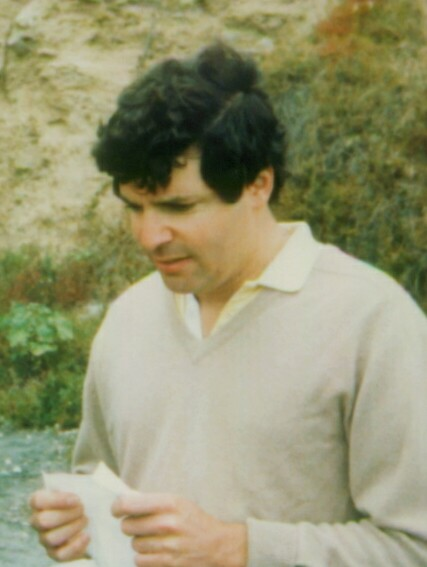 Harvard physicist Paul Horowitz in 1986 photo